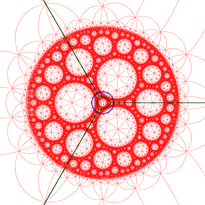 This is the regular {3,3,8} honeycomb in hyperbolic 3-space. This renders the intersection of the {3,3,8} with the plane-at-infinity, in the Poincare half-space model of H3.